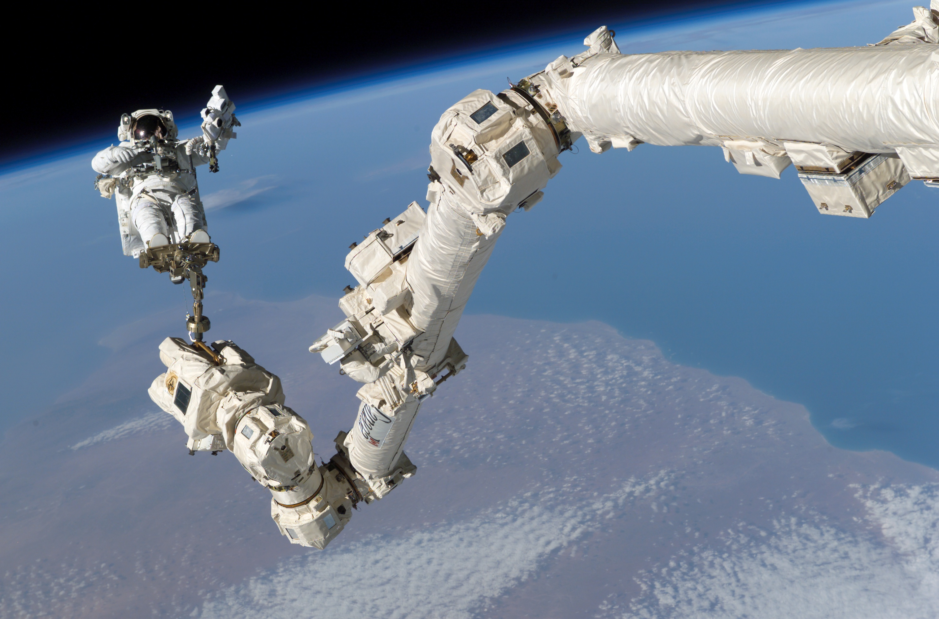 Astronaut Stephen K. Robinson, STS-114 mission specialist, anchored to a foot restraint on the International Space Station’s Canadarm2, participates in the mission’s third session of extravehicular activity (EVA). The blackness of space and Earth’s horizon form the backdrop for the image (3 August 2005).